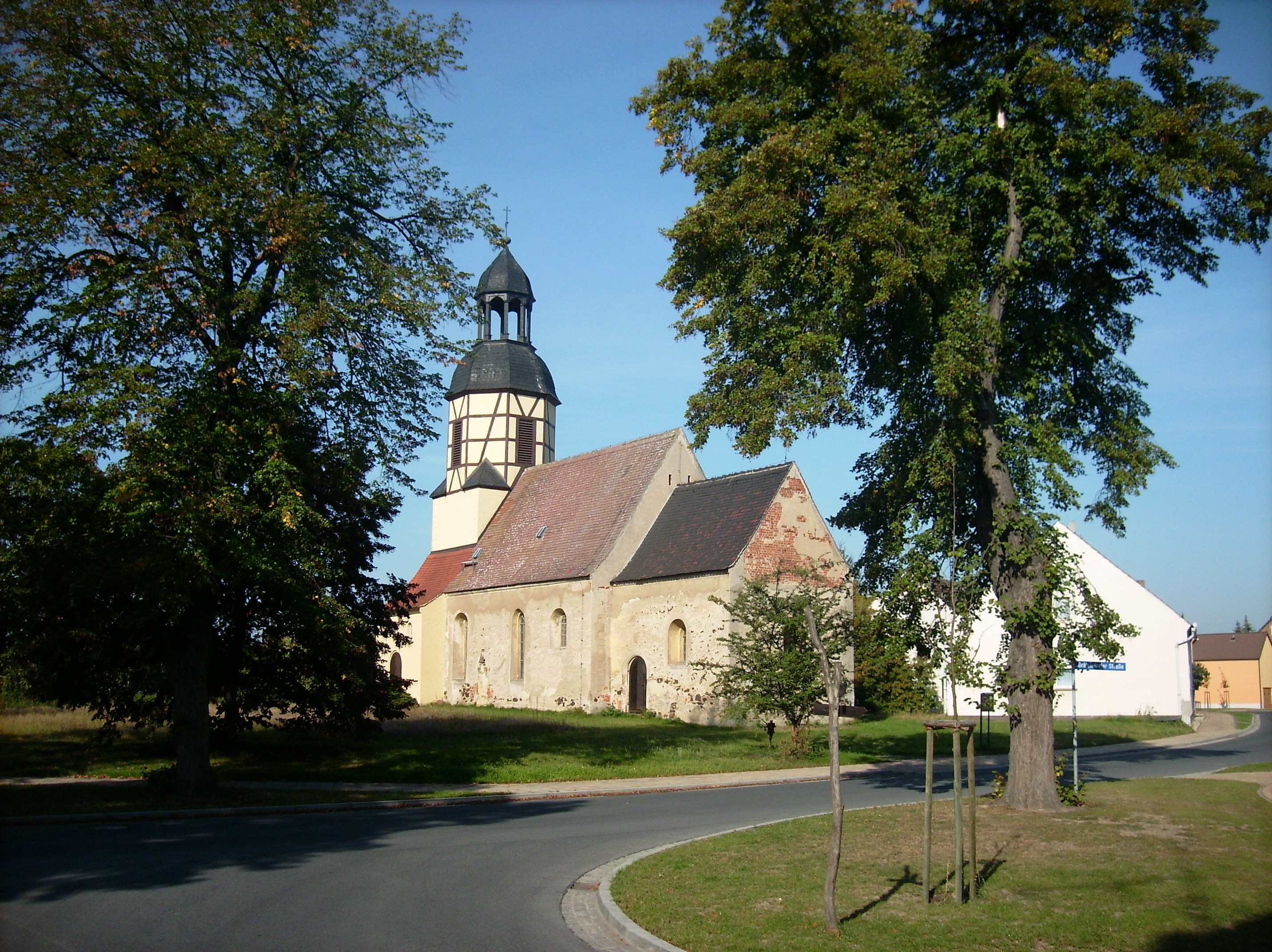 Church of the village of Fermerswalde (Herzberg/Elster, Elbe-Elster district, Brandenburg)